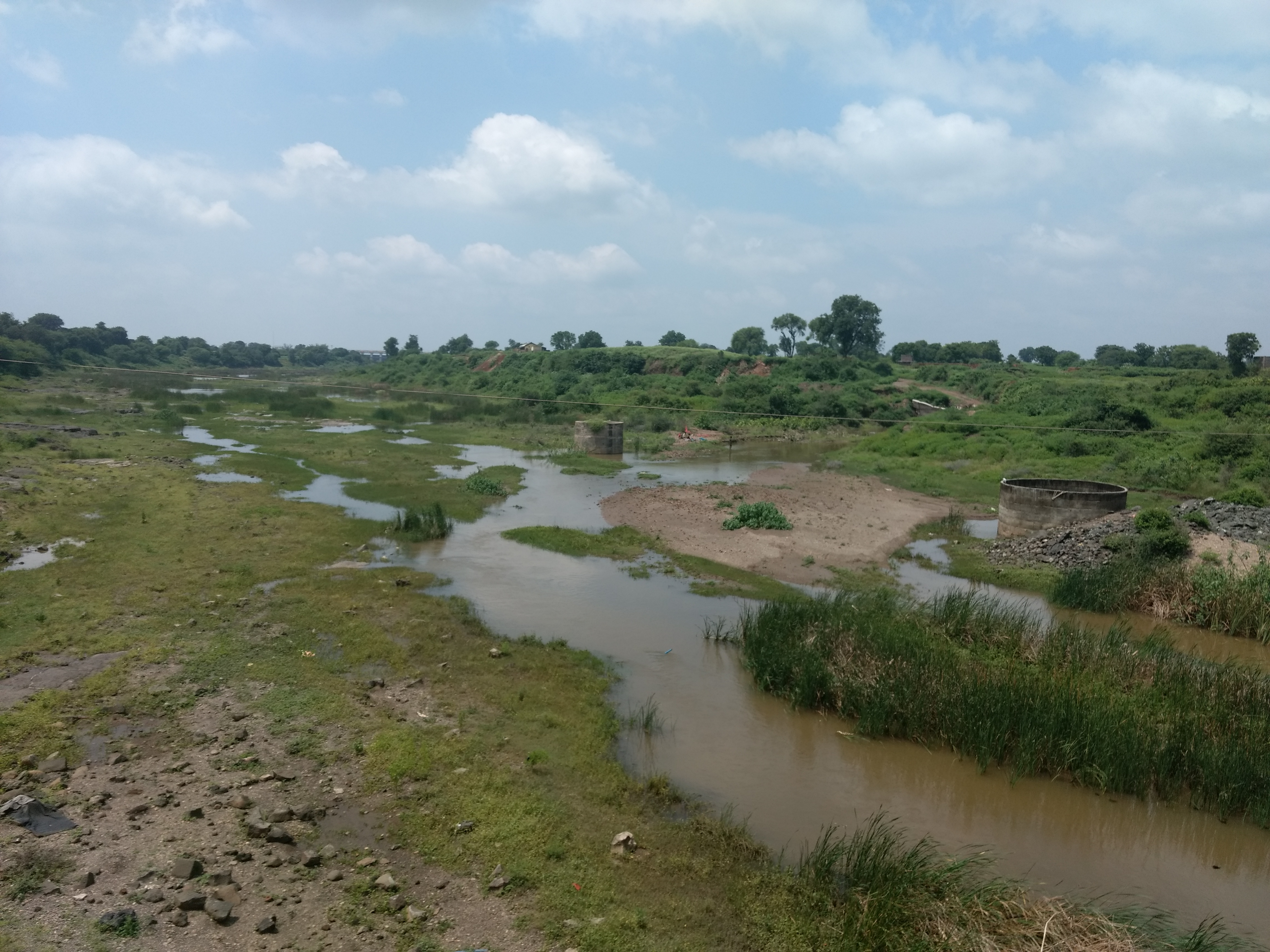 Khadakpurna River in Buldhana district.